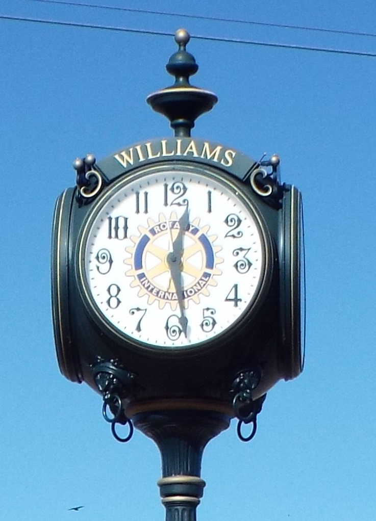 Williams Rotary International Clock in Williams, Arizona